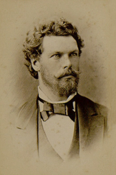 Portrait photograph of Josef Franz Freyn (1845-1903)